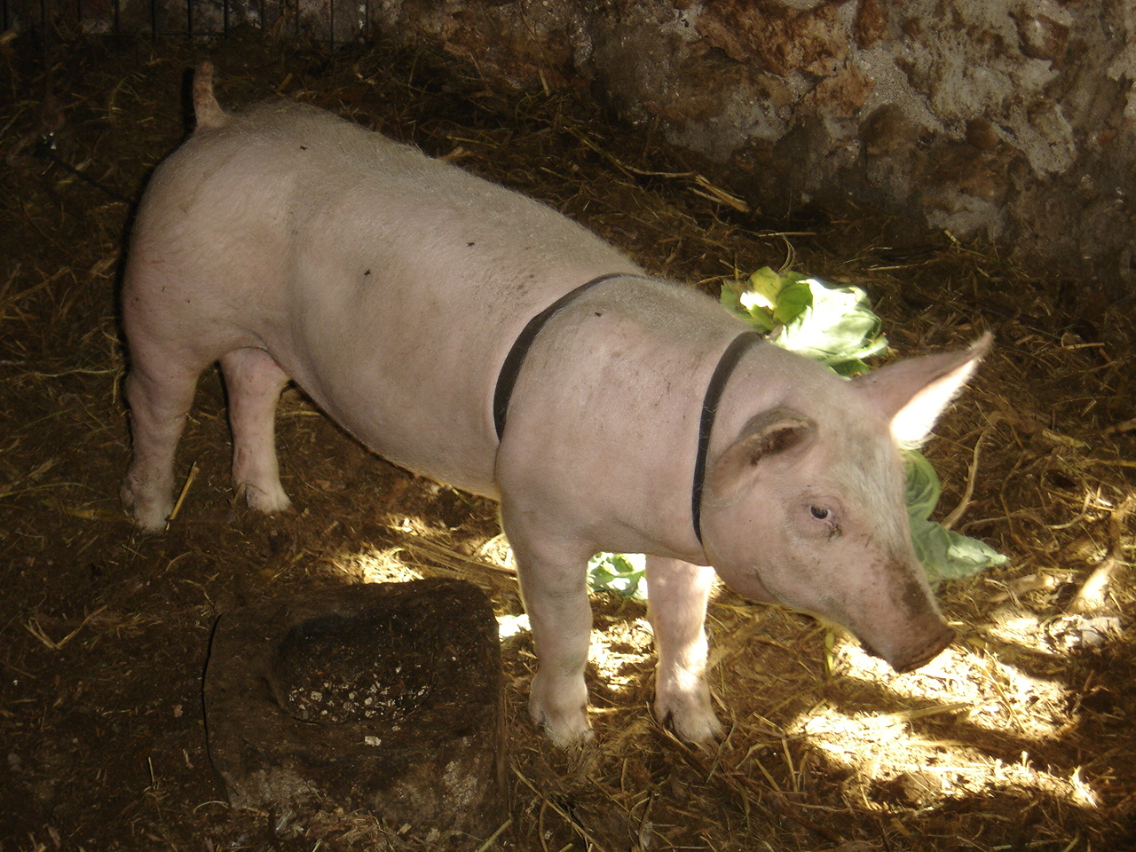 A pig in Lasithi, Crete.